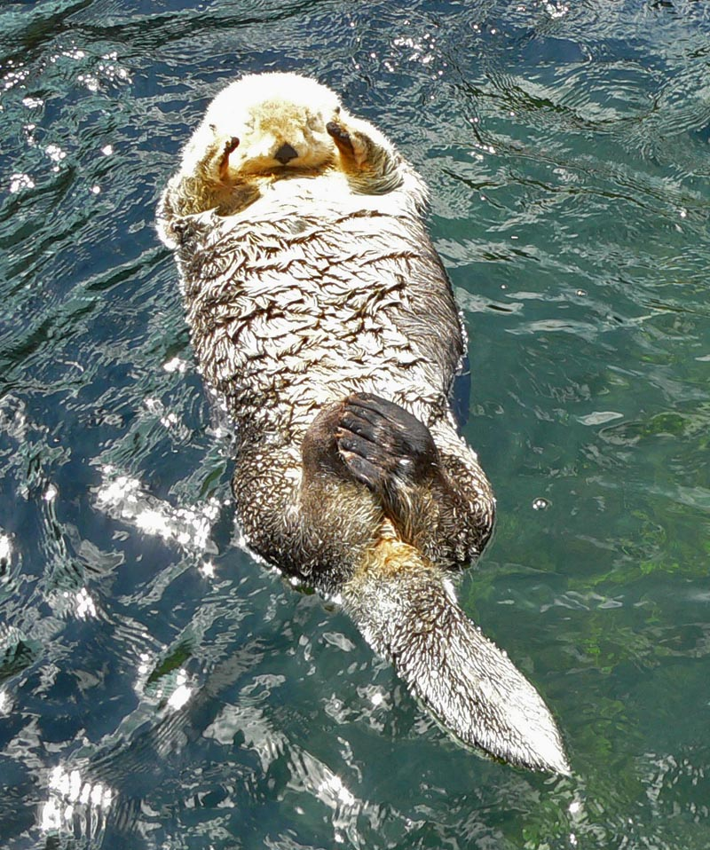 Photo of sleeping Enhydra lutris (sea otter) at the Vancouver Aquarium